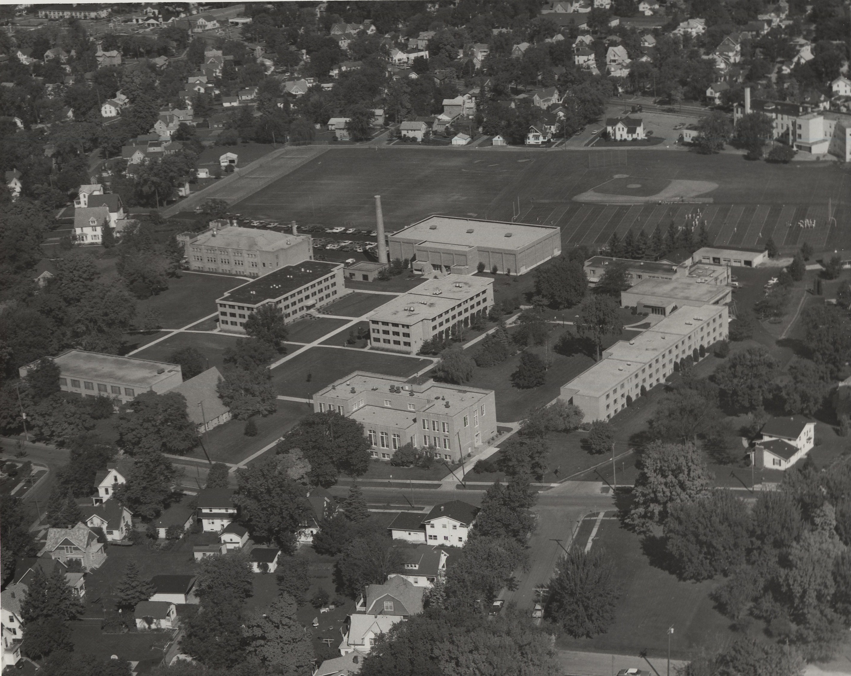 This is an aerial photo of the campus of Northwestern College/Northwestern Preparatory School, now called Luther Preparatory School. The photo was taken in 1975.